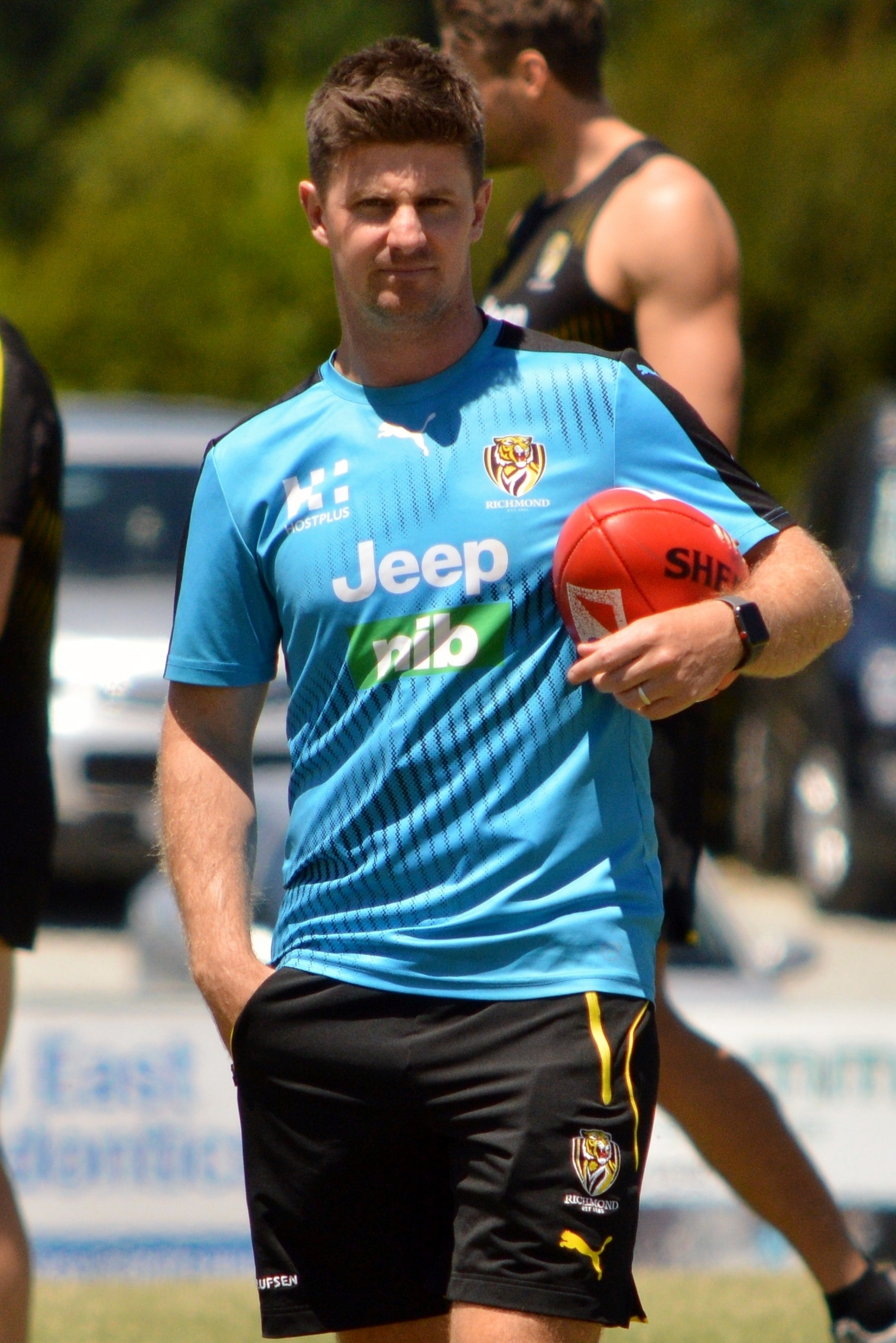 Andrew McQualter at Richmond's Family Day in January 2018